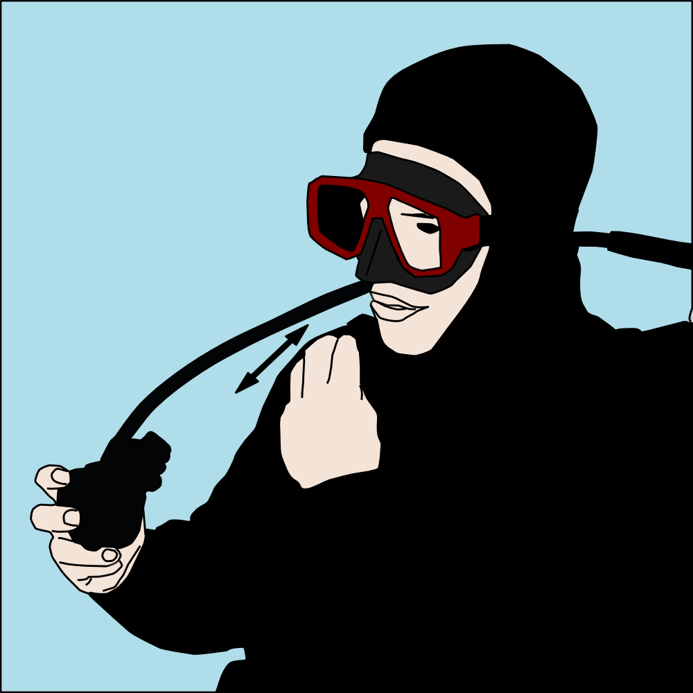 RSTC standard hand signal for scuba diving - Give me air